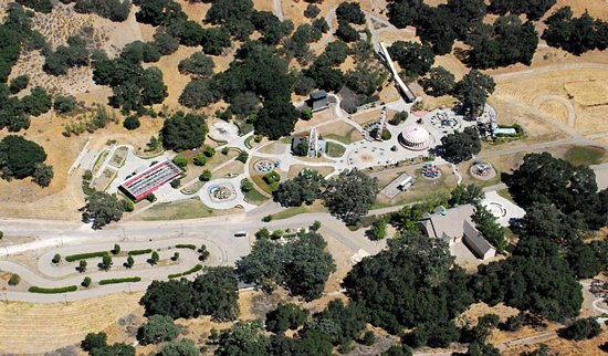 Aerial photo of the main carnival ride portion of Neverland Ranch near Los Olivos, CA. More and larger aerial photos of the ranch before and after removal of rides may be found here